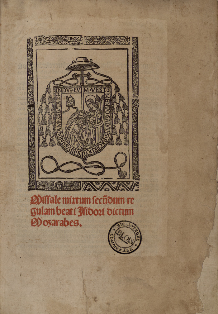 Title page of the Missale Mixtum secundum regulam beati Isidori dictum Mozarabes (published 1500)